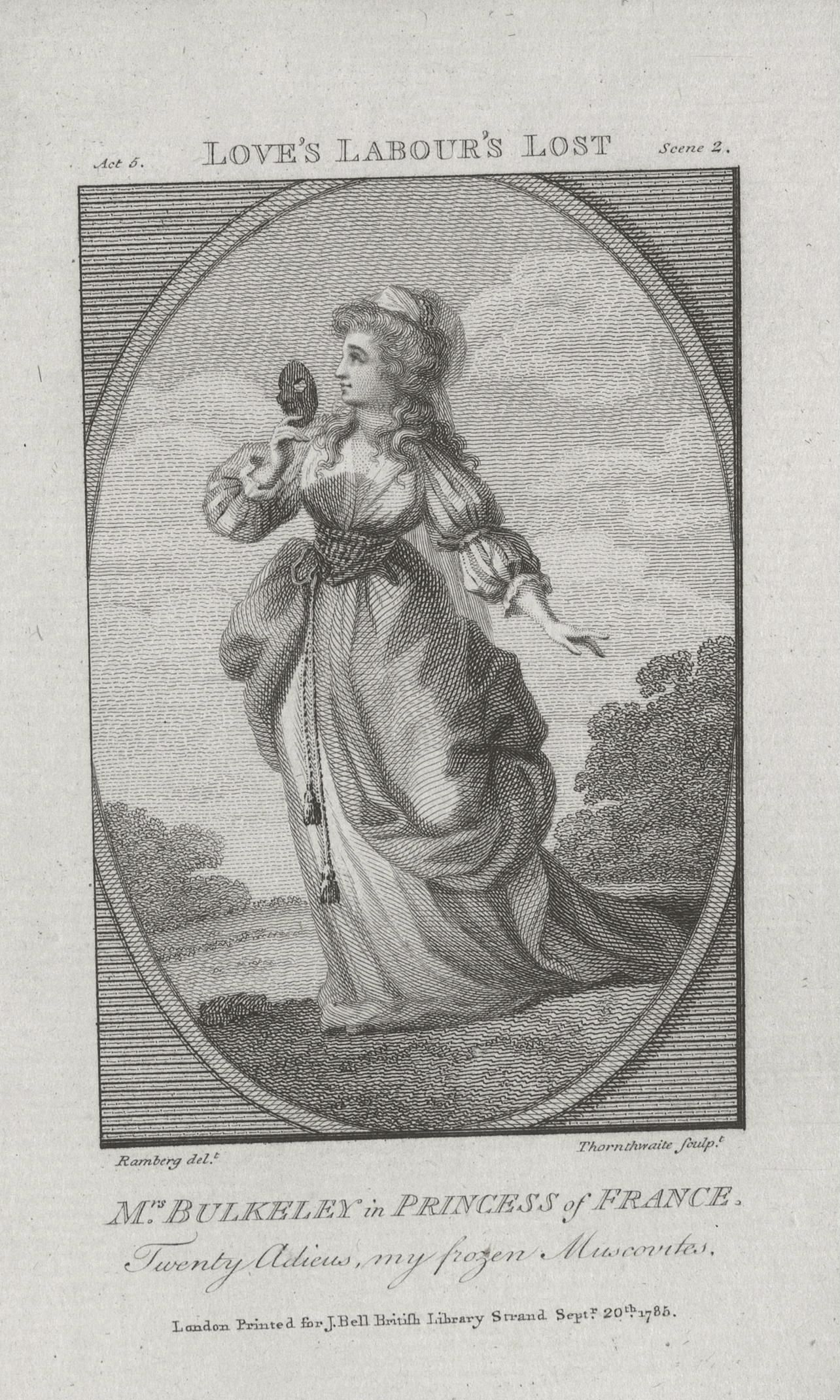 Engraving of actress and dancer Mary Bulkley (1747/8-1792) as the Princess of France in Love's Labour's Lost, 1785. She was born Mary Wilford; her two married names were Bulkley and Barrisford. She was known professionally as Mrs Bulkley. Her biography is here.